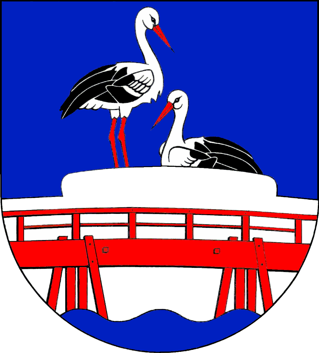 Coat of arms of the municipality Auufer in Schleswig-Holstein, Germany.